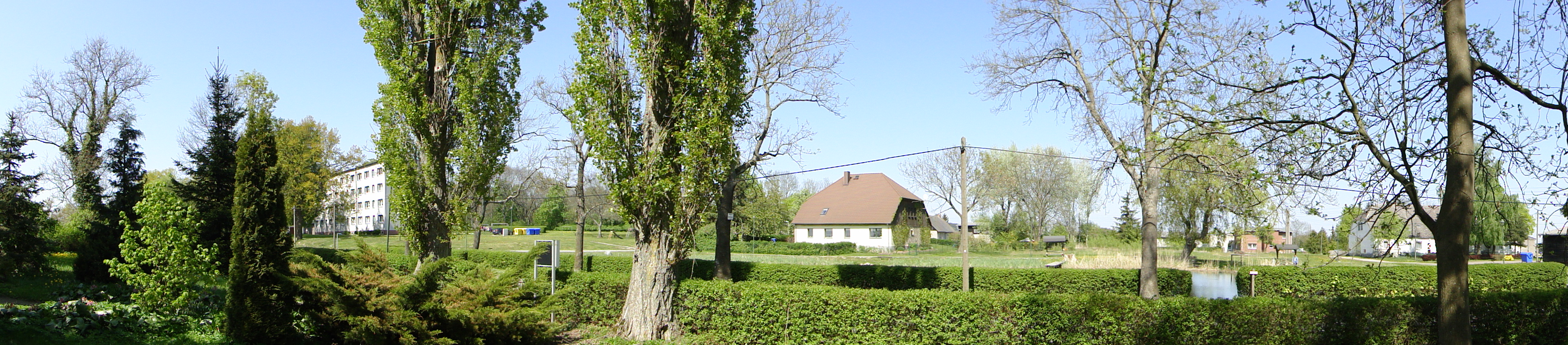 Panoramic view in Voigtsdorf, district Mecklenburg-Strelitz, Mecklenburg-Vorpommern, Germany